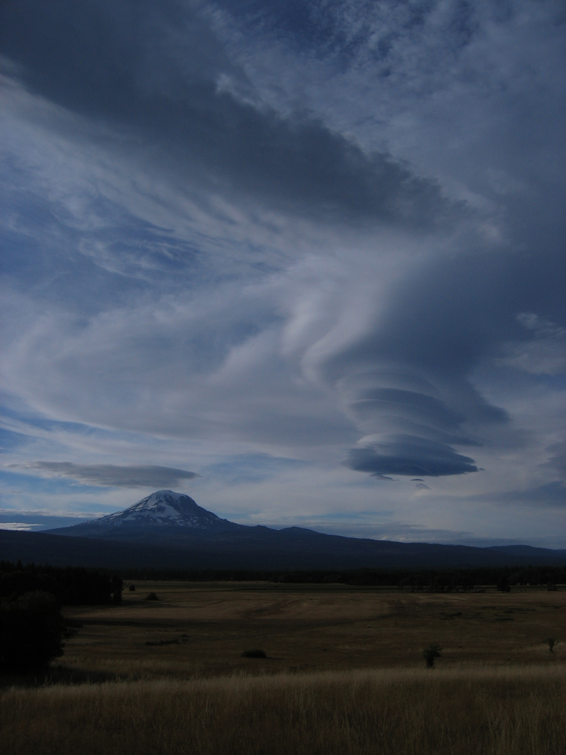 Towering lenticular clouds forming over Mount Adams (Washington)